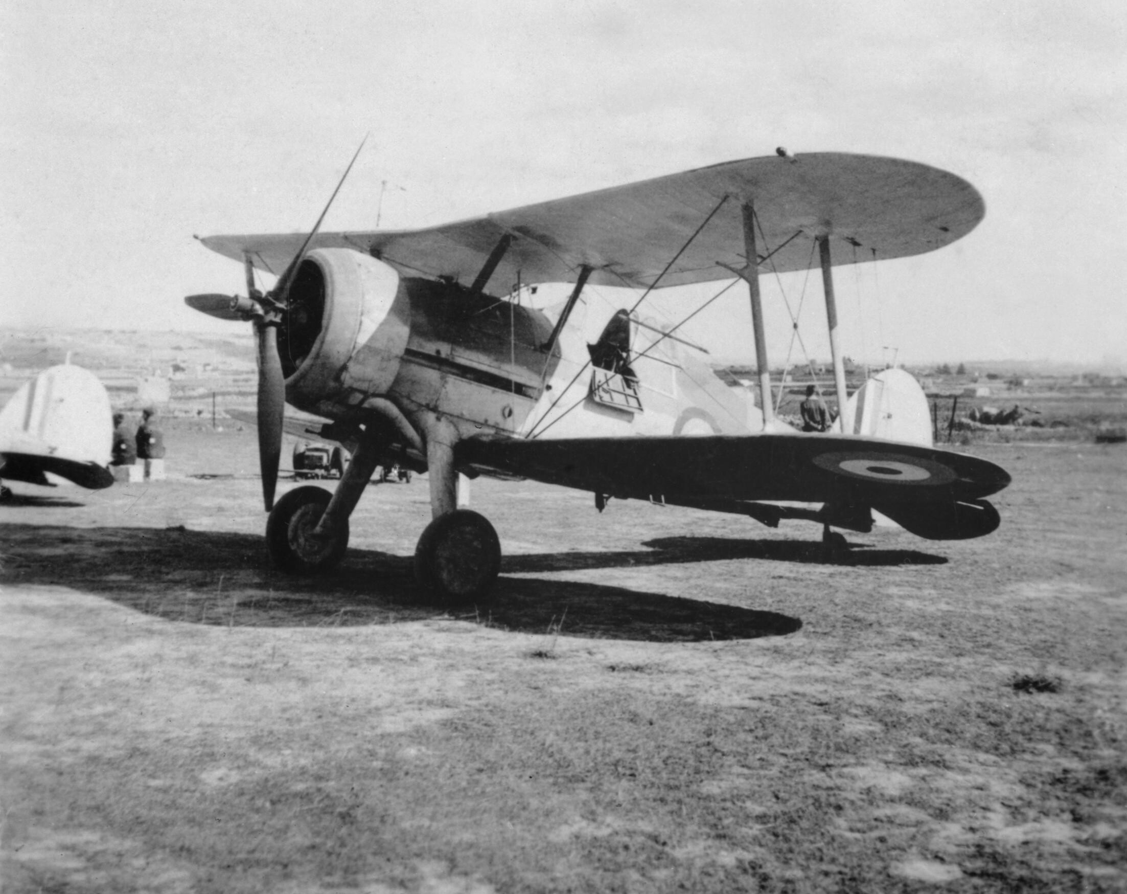 A Royal Air Force Gloster Sea Gladiator Mark I, serial number N5520, on the ground at an airfield in Malta, probably while being flown by No. 261 Squadron RAF at RAF Ta' Qali. The aircraft has been refitted with a Bristol Mercury engine and three-bladed Hamilton propeller salvaged from a Bristol Blenheim. N5520 is the only surviving Gladiator of the Hal Far Fighter Flight, and was presented to the people of Malta as Faith in 1943. Date: c. September 1940.